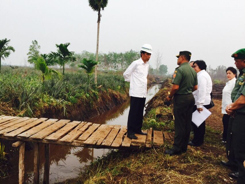 President Joko Widodo of Indonesia inspecting the building of retention basin in Rimbo Panjang, Kampar Regency, Riau as a way to check forest fire causing the 2015 Southeast Asian haze